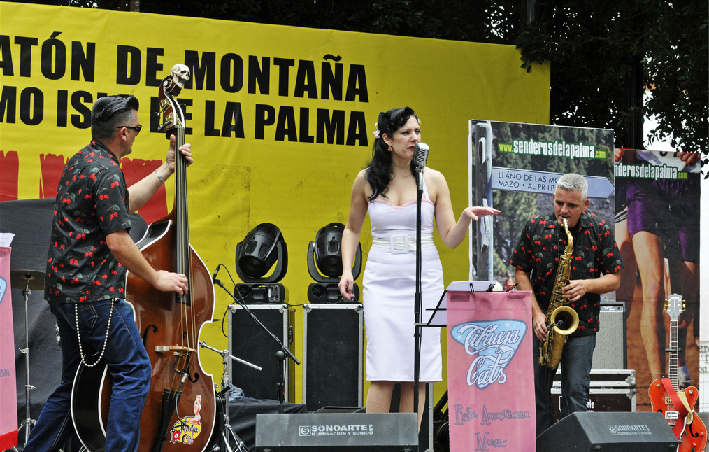 Its a Tihuya Cats concert in the Transvulcania 2011